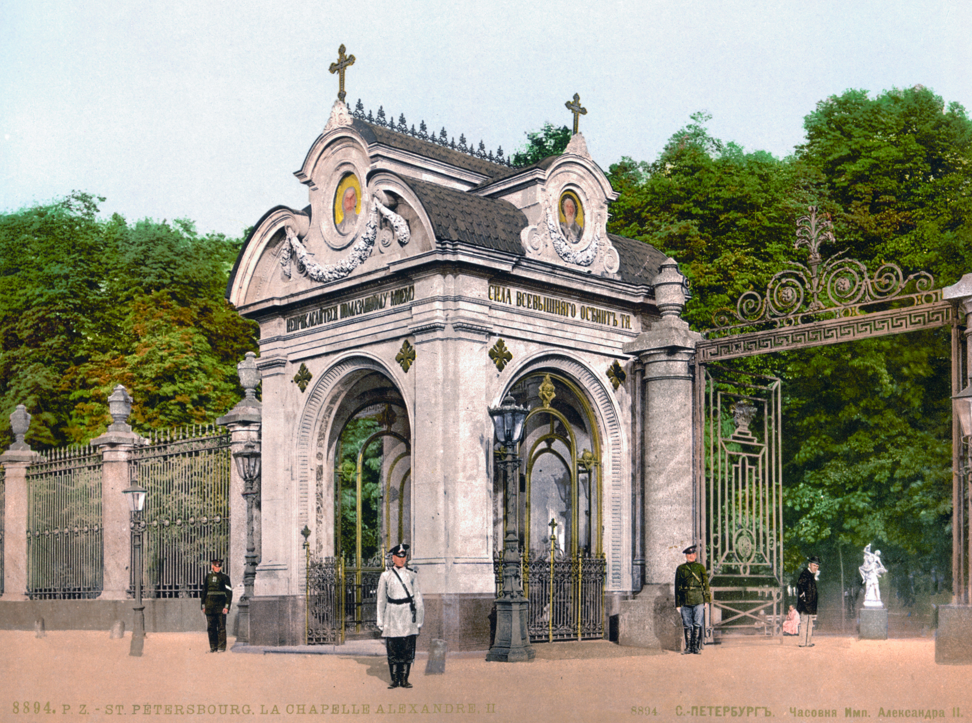 The cast iron grille of the Summer Garden in St Petersburg (Russia). 19th-century photochrome print (1890—1900)